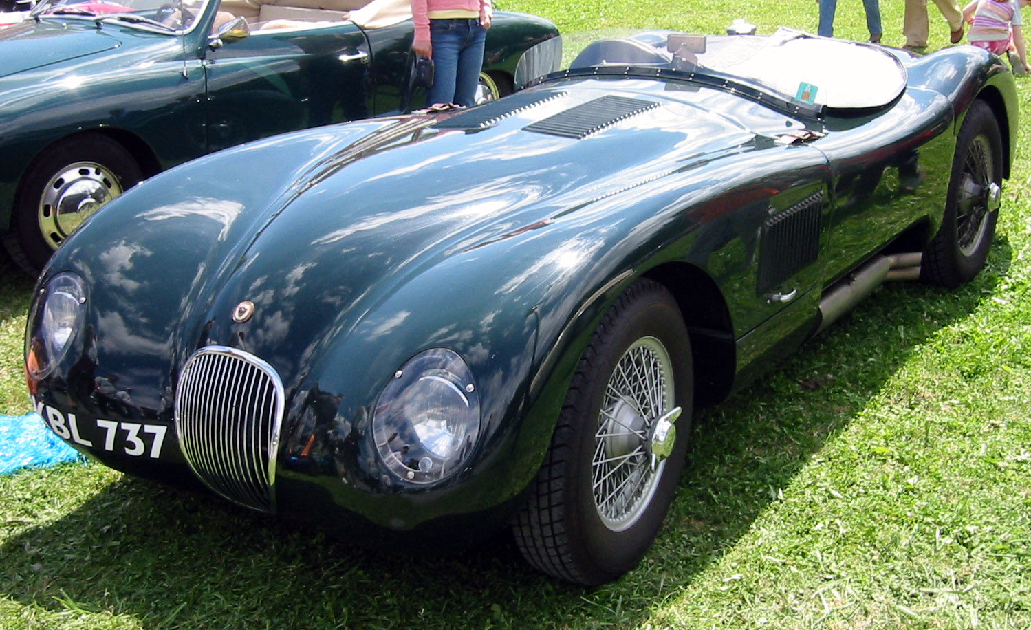 Jaguar C-Type (Jaguar XK 120 C)